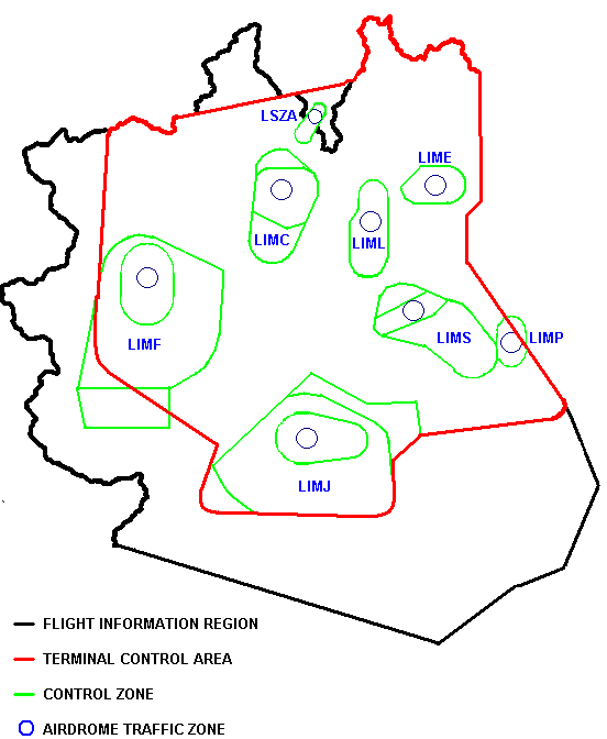 Milano Terminal Control Area (Aeronautics) Created by Pikappa.